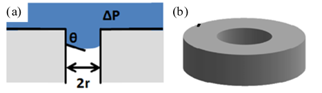 Pore and LEP